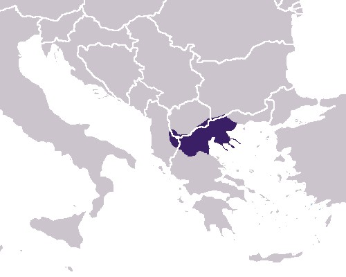 Area of Ancient Macedonia